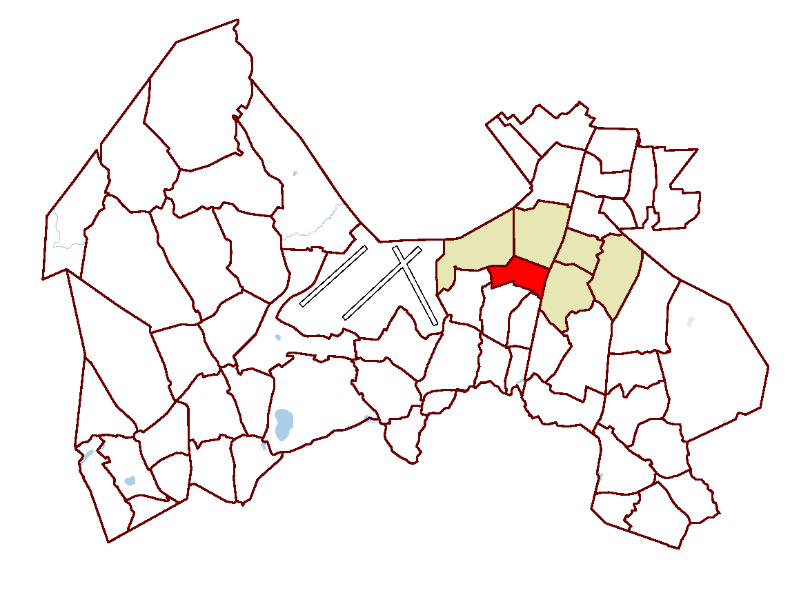 District of Koivukylä (marked red), within Korso-Koivukylä service area (marked light brown) in Vantaa, Finland